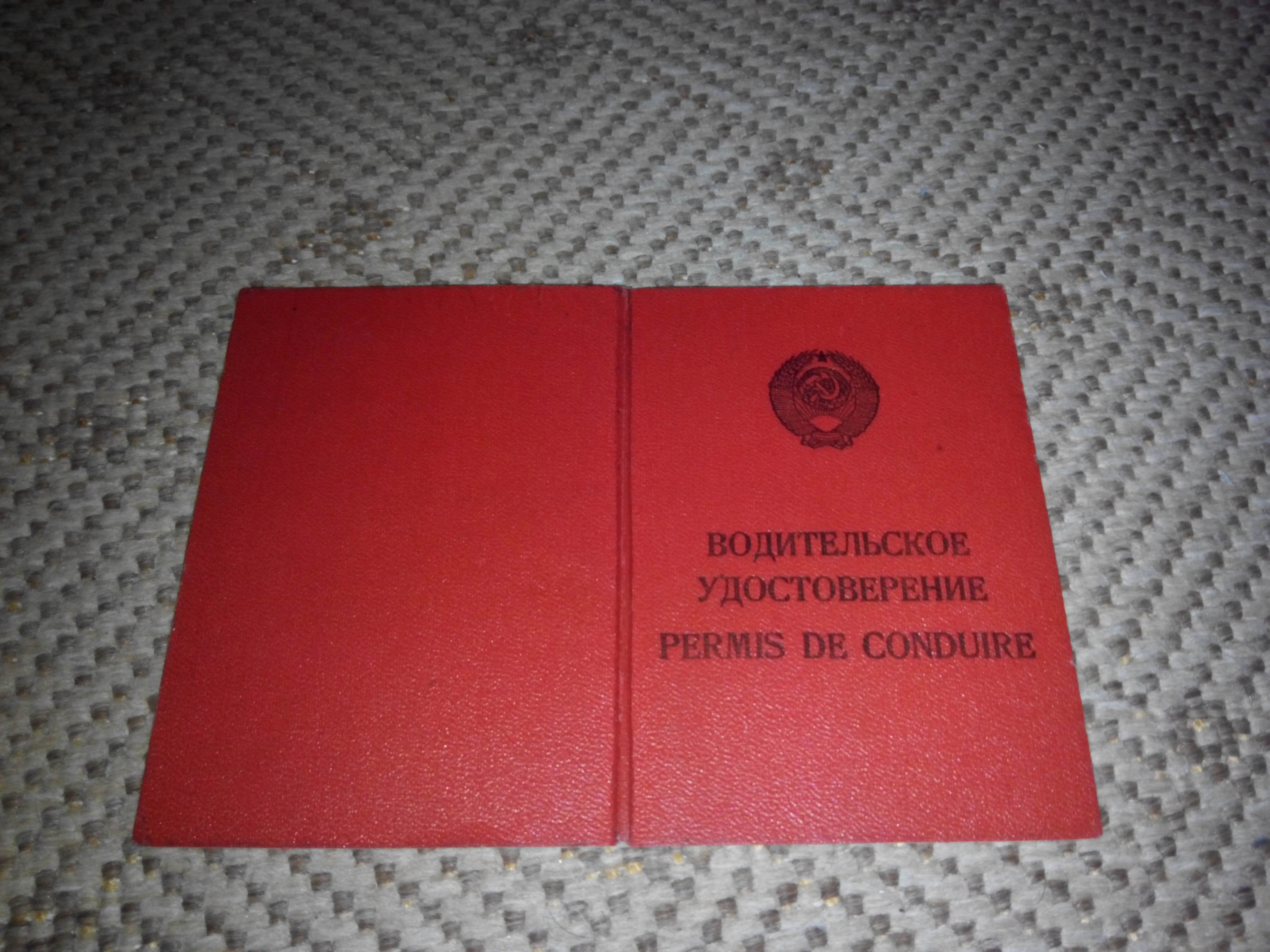 Driving licence of the Soviet Union, issued in 1985